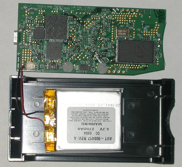 BlackDog Hardware Internals